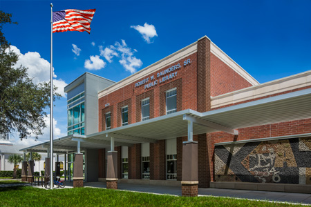 Saunders Branch Today